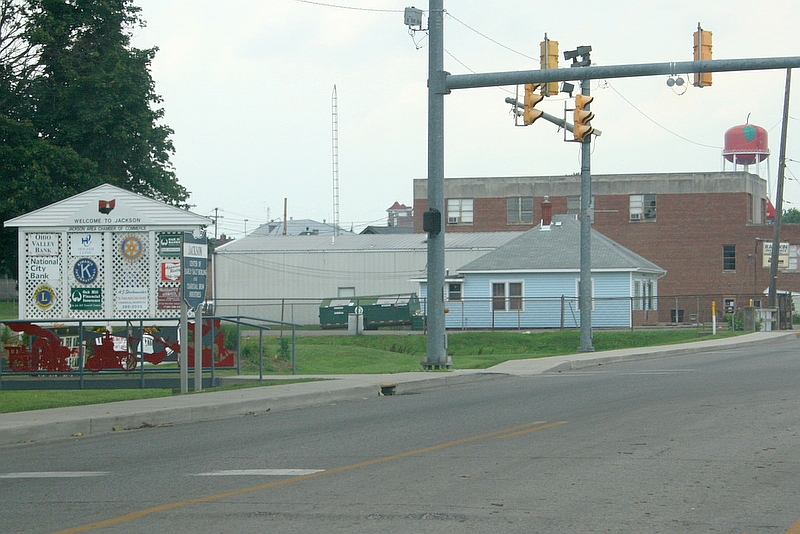 Jackson, Ohio, July 2007. A view of Jackson's welcome sign and city's water tower while traveling north on SR 93 Source Photo by Vbofficial 00:33, 16 July 2007 (UTC)